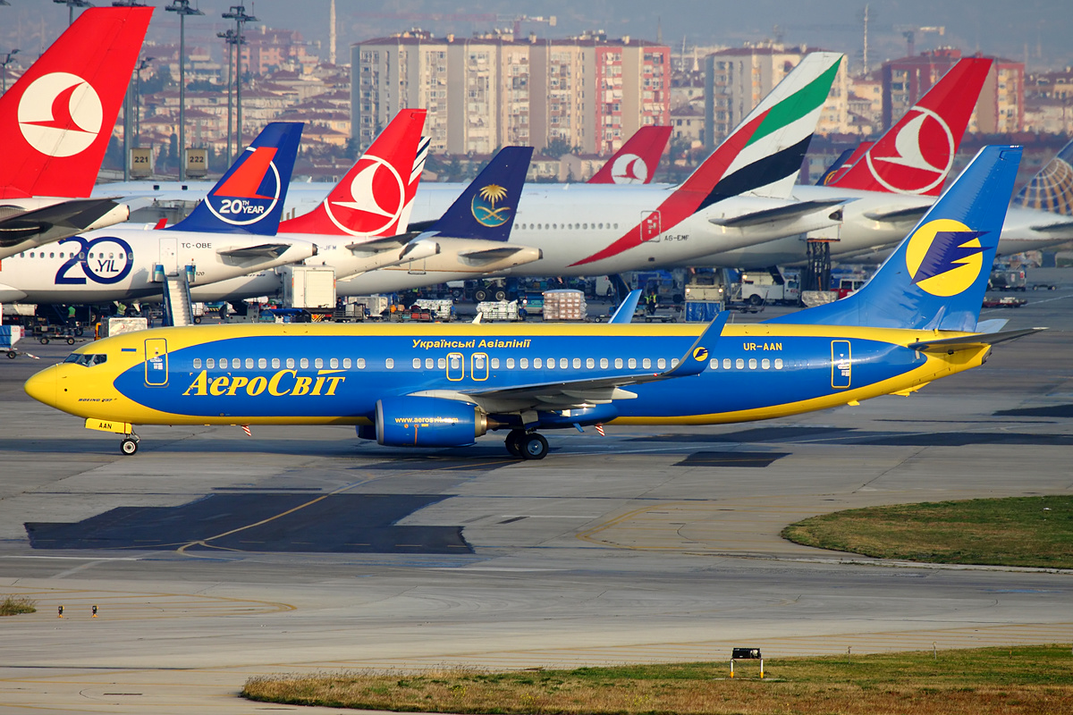 An AeroSvit Airlines Boeing 737-84R at Atatürk Airport (IST / LTBA)